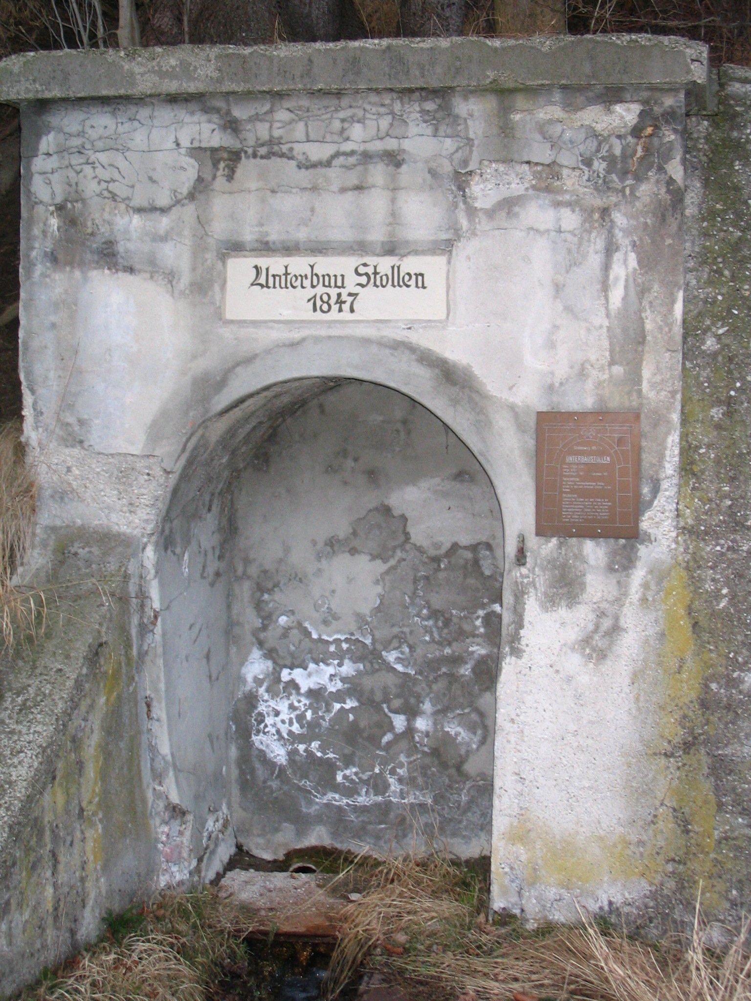 Unterbaustollen in Hohenpeissenberg before rebuild